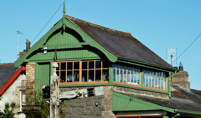 Former railway station, SaintfieldVery much a typical Belfast and County Down Railway station. The line closed in 1950 and was signalled using lower quadrant semaphores. The signal cabin was attached to the station building. Back in the mid-1970’s there was a proposal to build a Saintfield bypass here which was countered by a suggestion to re-open part of the line using steam locomotives J4155 : Former Ballynahinch Junction station (1983-2). Both schemes failed to materialise.